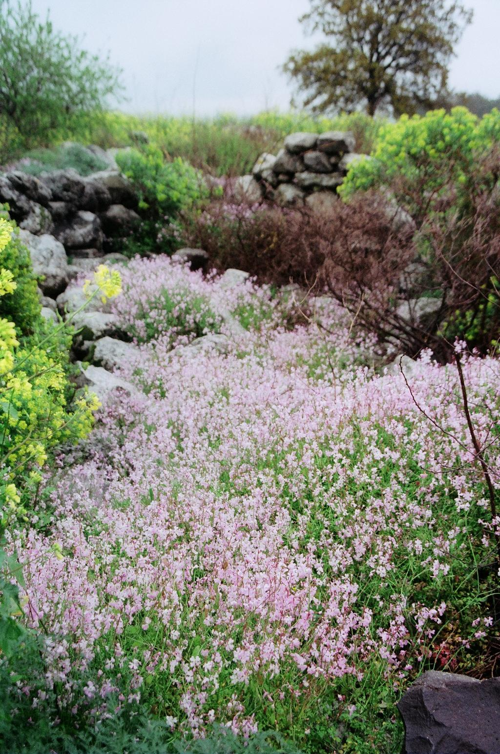 Ricotia lunaria